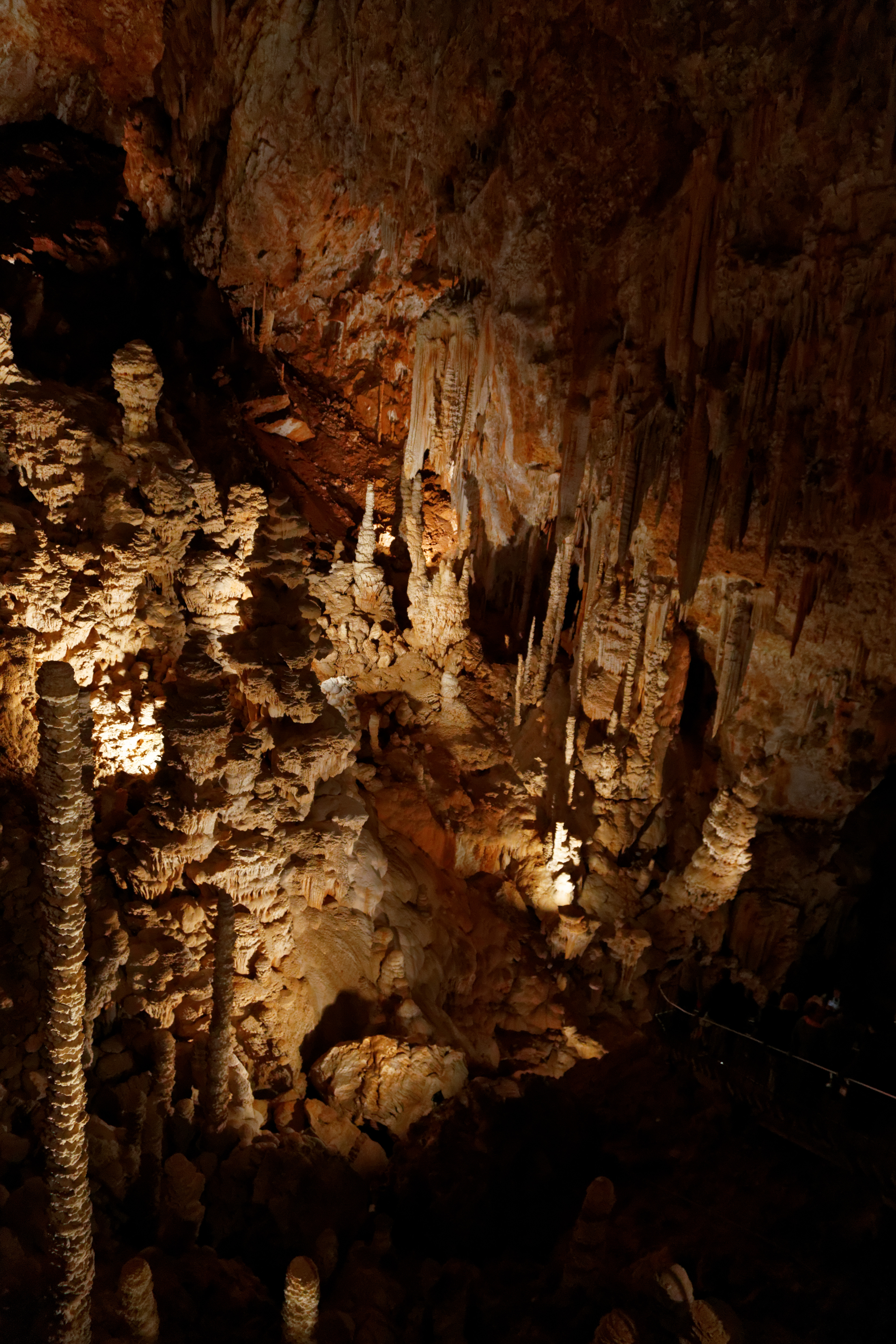 Aven d'Orgnac 6-18-16